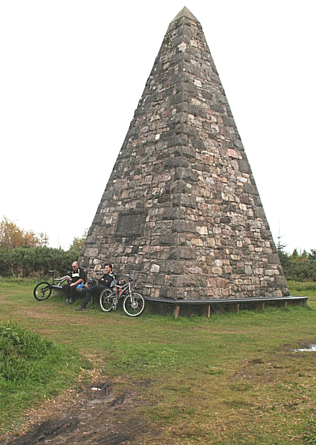 Duchess Harriett's Cairn The cairn was erected in memory of Frances Harriett Greville (1823-1887), wife of Charles Henry Gordon-Lennox (1818-1903), 6th Duke of Richmond and 1st Duke of Gordon.